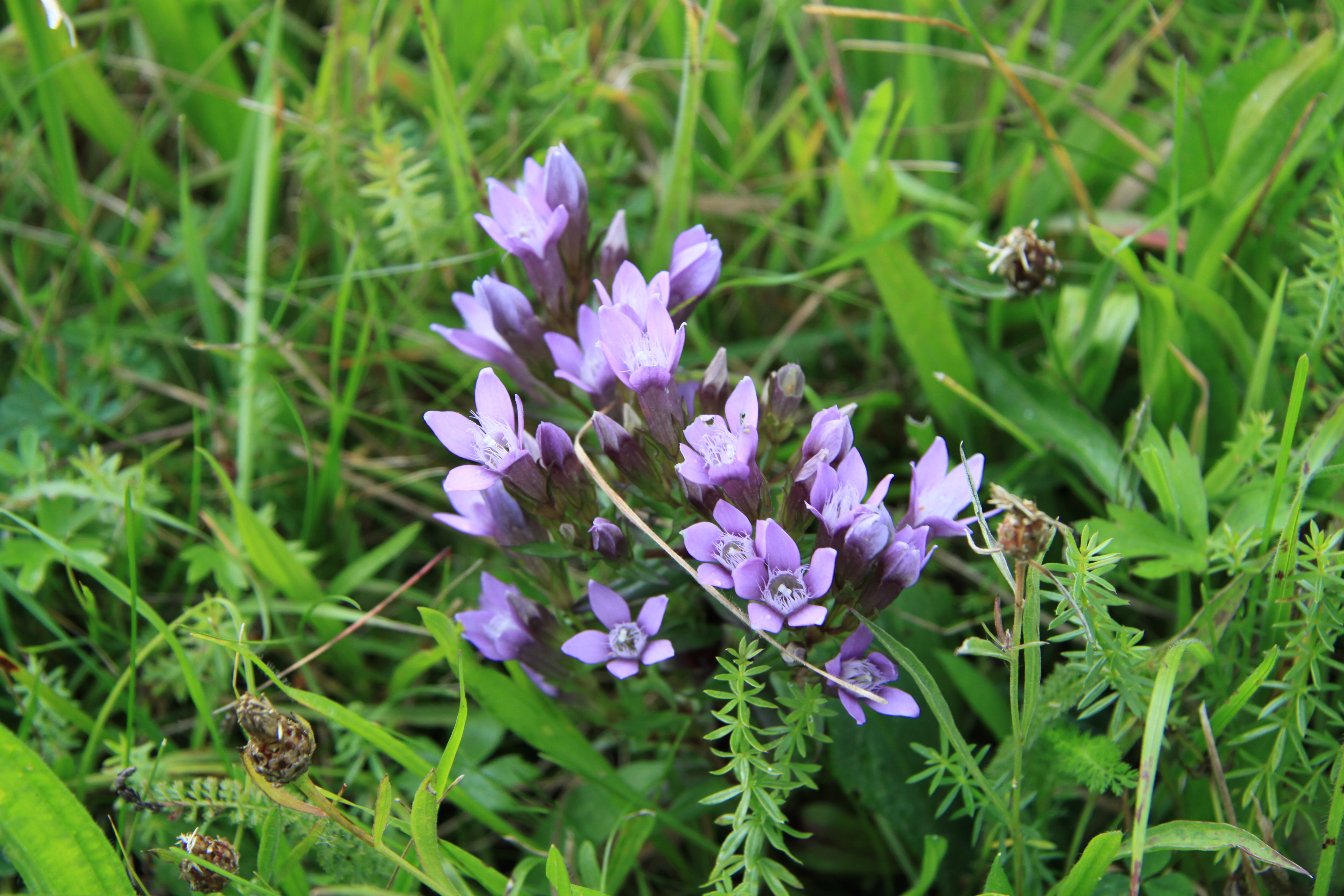 Gentianella obtusifolia subsp. sturmiana in natural reservation Kocelovické pastviny, South Bohemia, Czech Republic - Google Maps - Google Earth